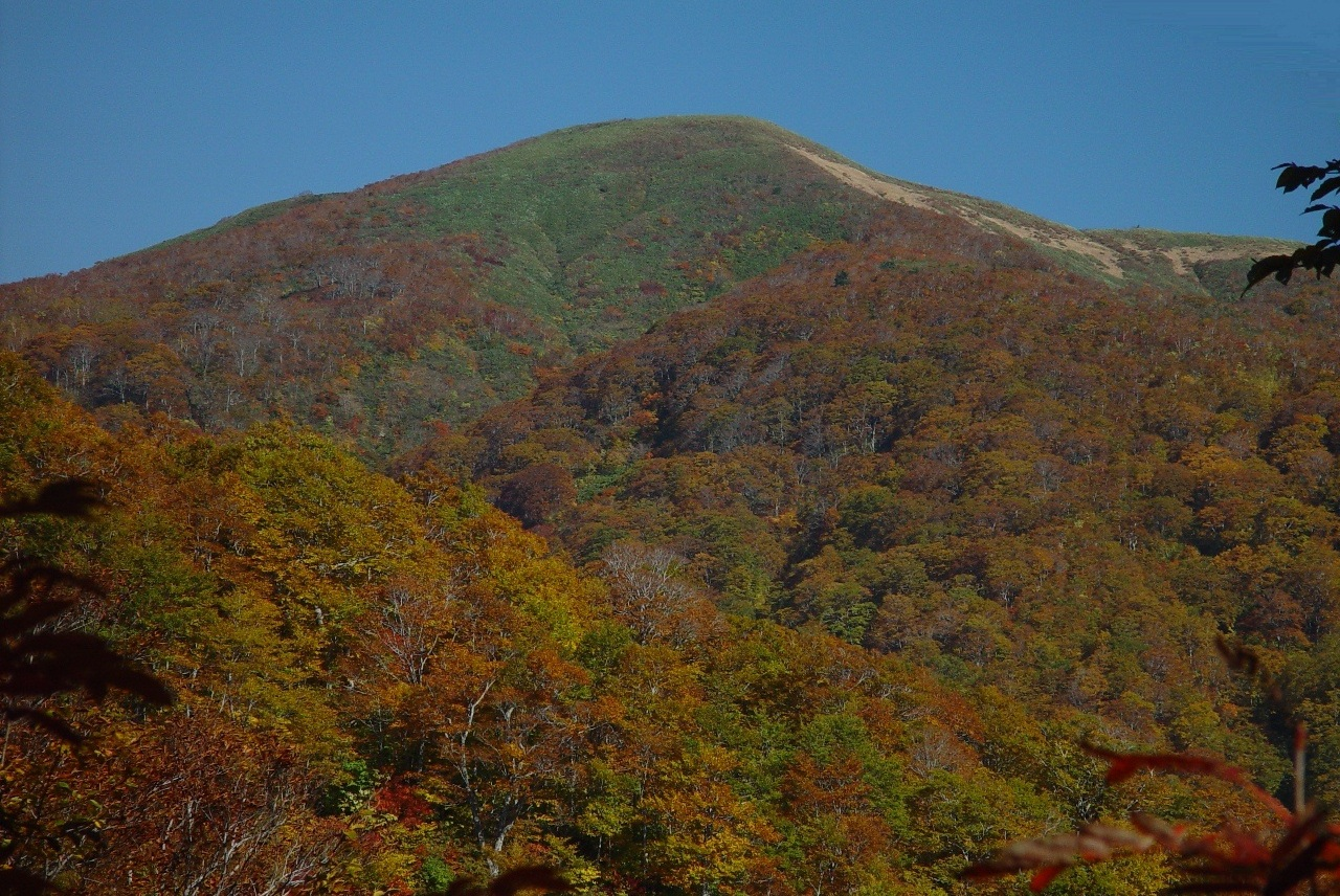 Akausagiyama_from_Usagidaira_2002-10-17